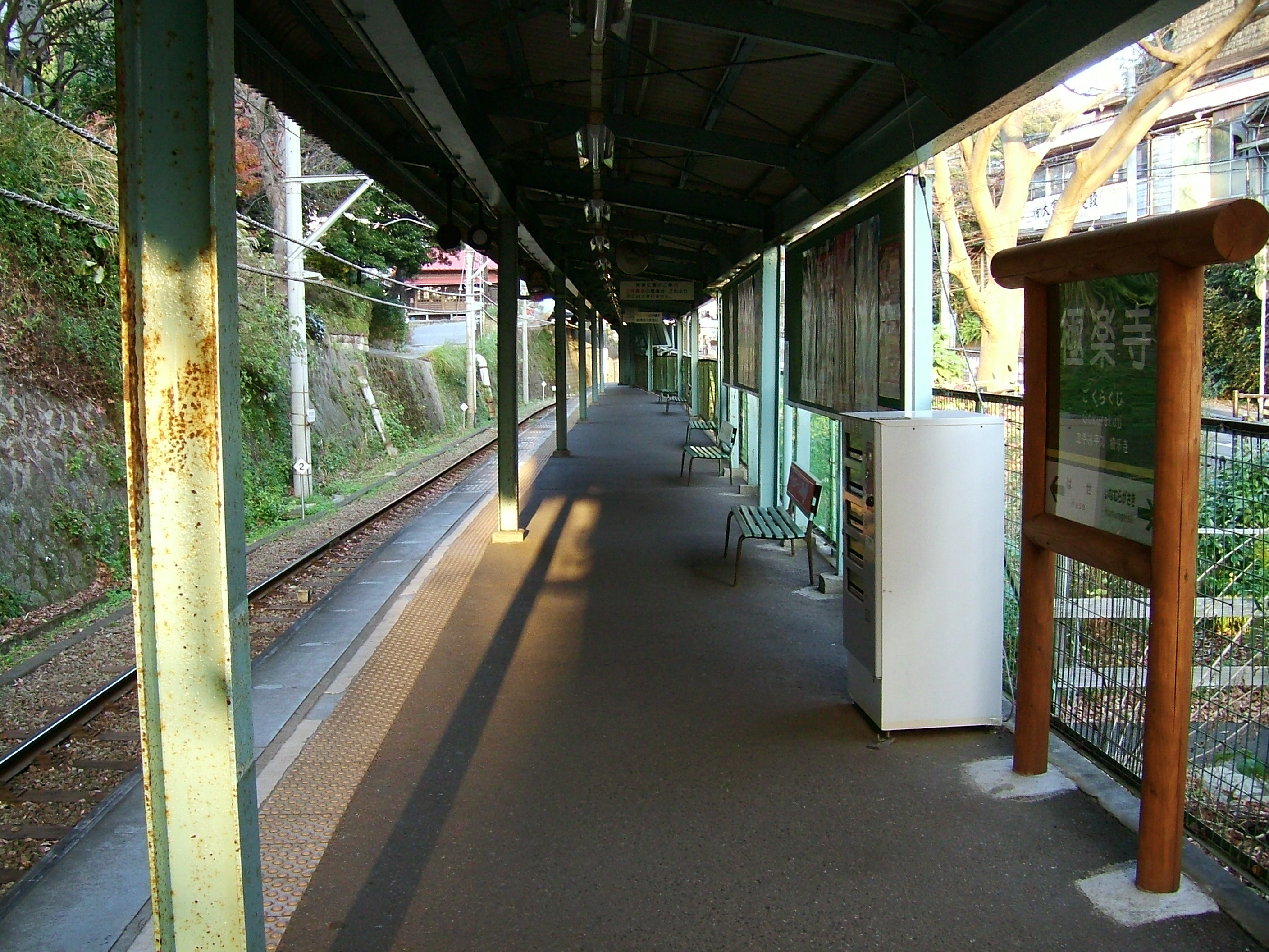 The platform at Gokurakuji Station on the Enoden Line in Kamakura city, Kanagawa prefecture, Japan